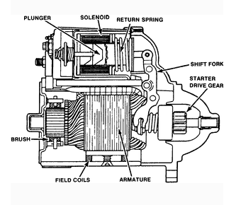 Basic illustration of the parts of an automobile starter motor.